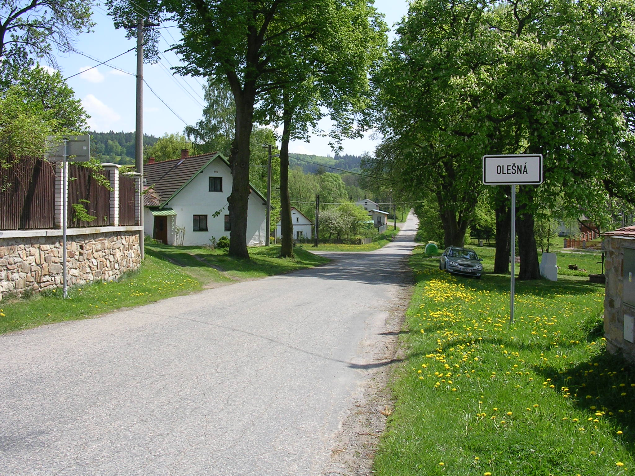 Načeradec-Olešná, Central Bohemian Region, the Czech Republic.